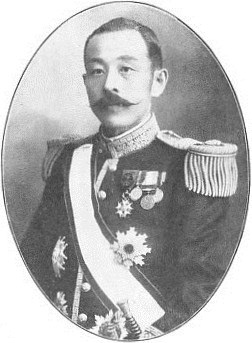 Yoshiro Sakatani